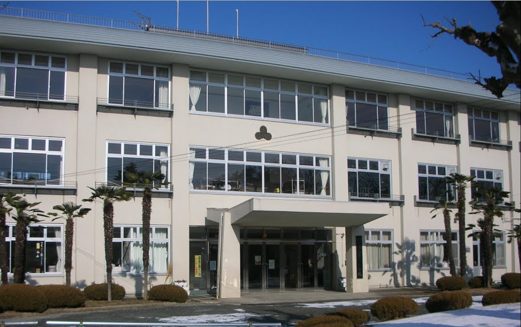 Front view of the First Wakuya Elementary school